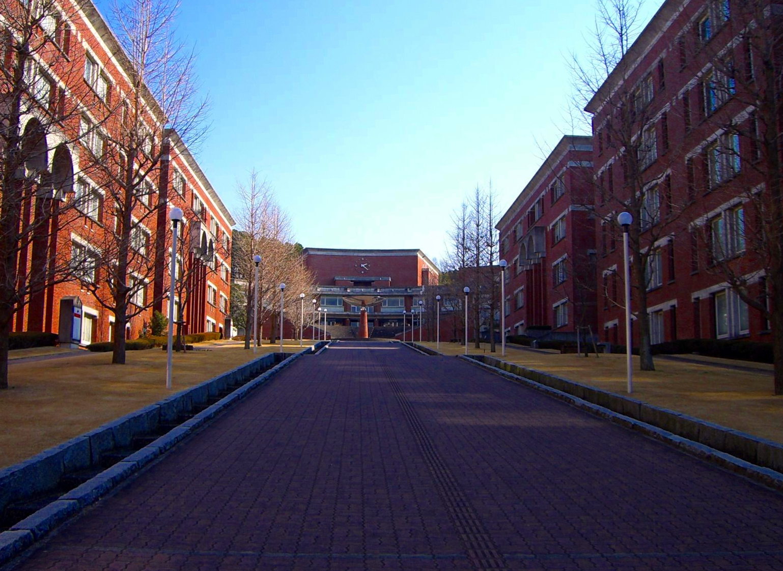 Yada Campus, University of Shizuoka (Shizuoka City, Shizuoka Prefecture)